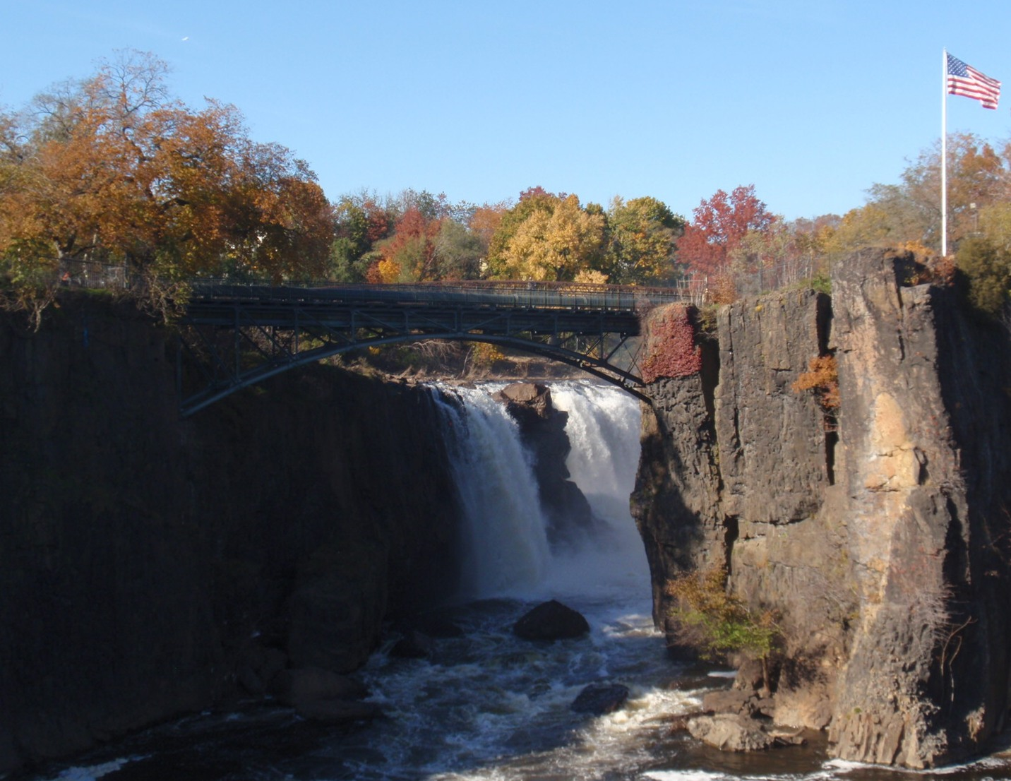 Nature provided a lovely backdrop for the dedication of Paterson Great Falls National Historical Park. The weather was perfect!